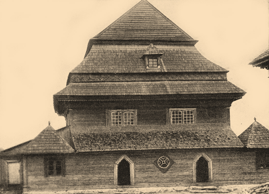 Illustration from Brockhaus and Efron Jewish Encyclopedia (1906—1913)